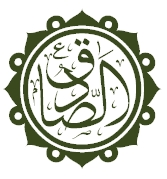 name of shiite imam